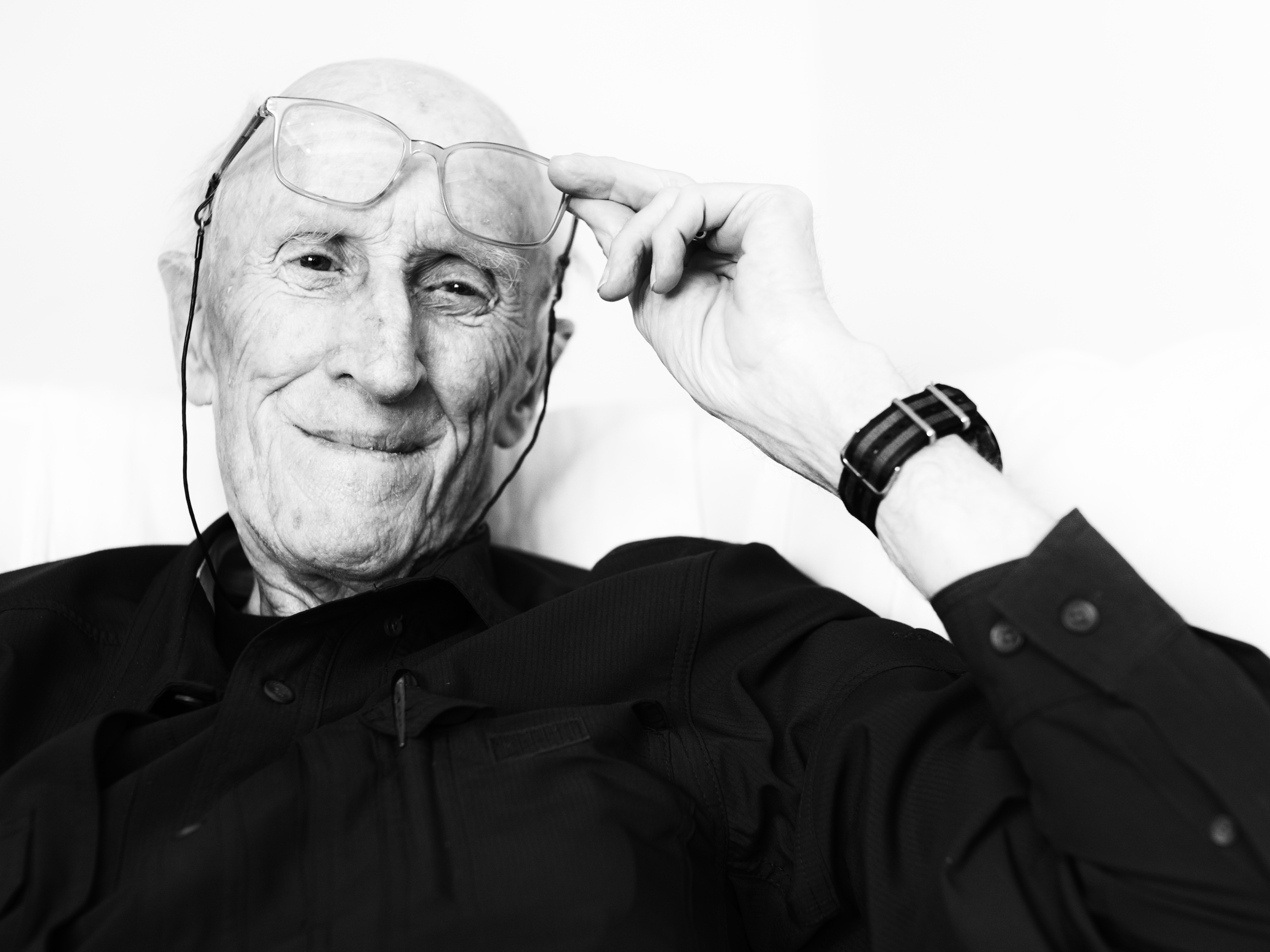 Stewart Brand at his Sausalito office in 2020 by Christopher Michel.